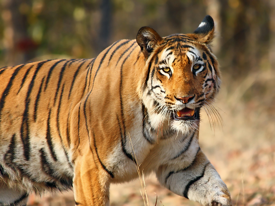 Tiger sighting in Nagzira Wildlife Sanctuary